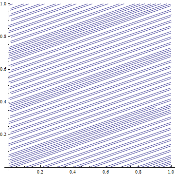 Shows the linear flow on a 2 Torus with the two components being rationally independent showing how as the system continues it becomes a dense orbit.